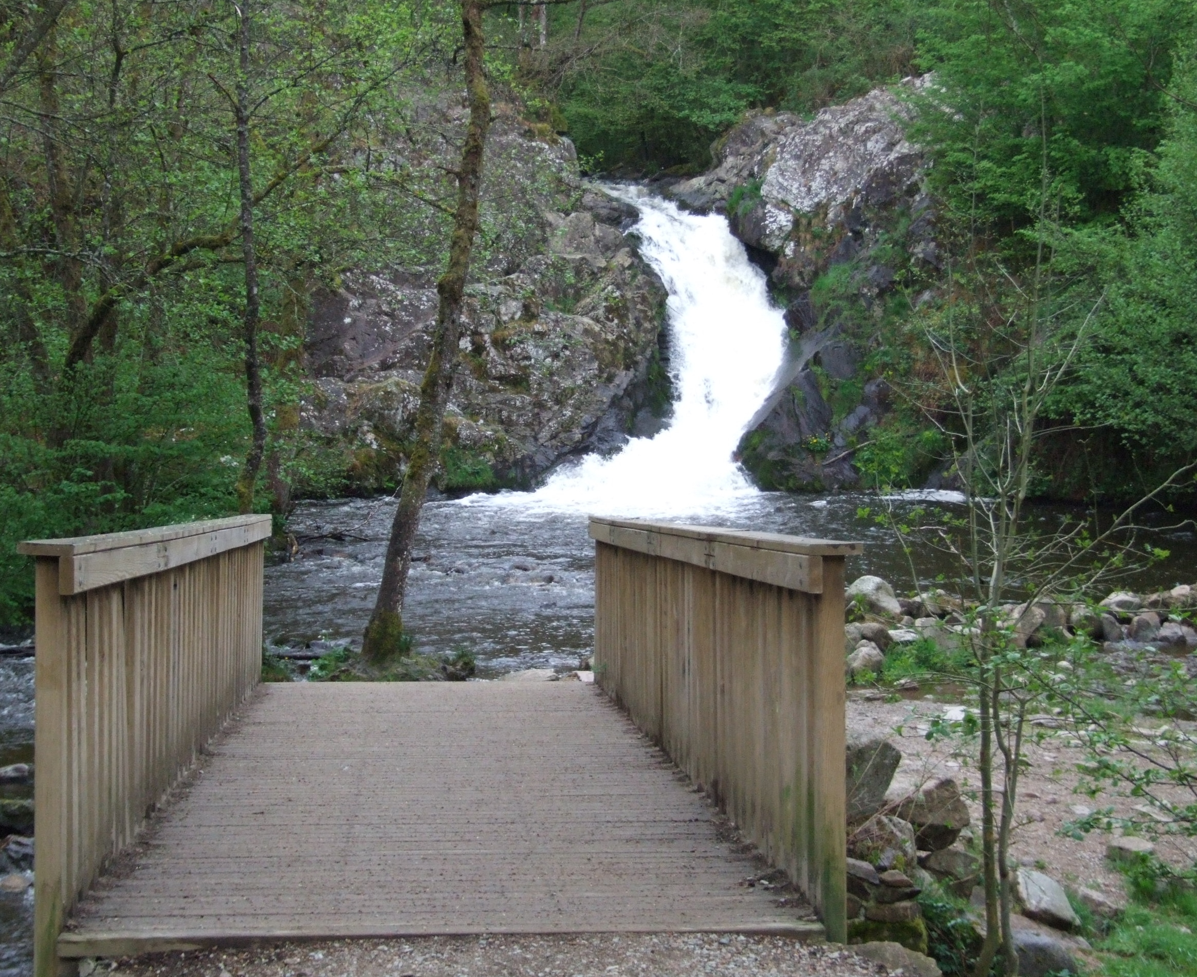 Morvan, Nievre, Burgundy, FRANCE